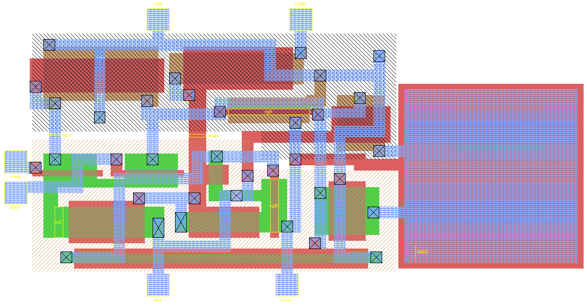 CMOS Op-amp (dual-stage) Created by me for a VLSI course. Red - Polysilicon Blue - Metal (layer 1) Green - N-doped Si Brown - P-doped Si X's - cross layer connections